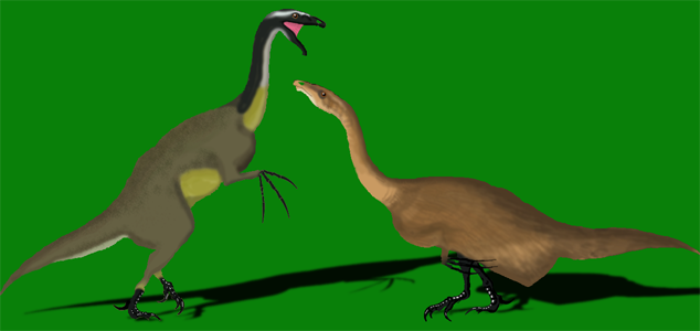 Enigmosaurus Mating Ritual by Sam Barnett (myself) An adult male Enigmosaurus mongoliensis attempts to impress a sub-adult female with his colourful courtship display. Skeletal observations based on Oyvind Padron's Erlikosaurus andrewsi